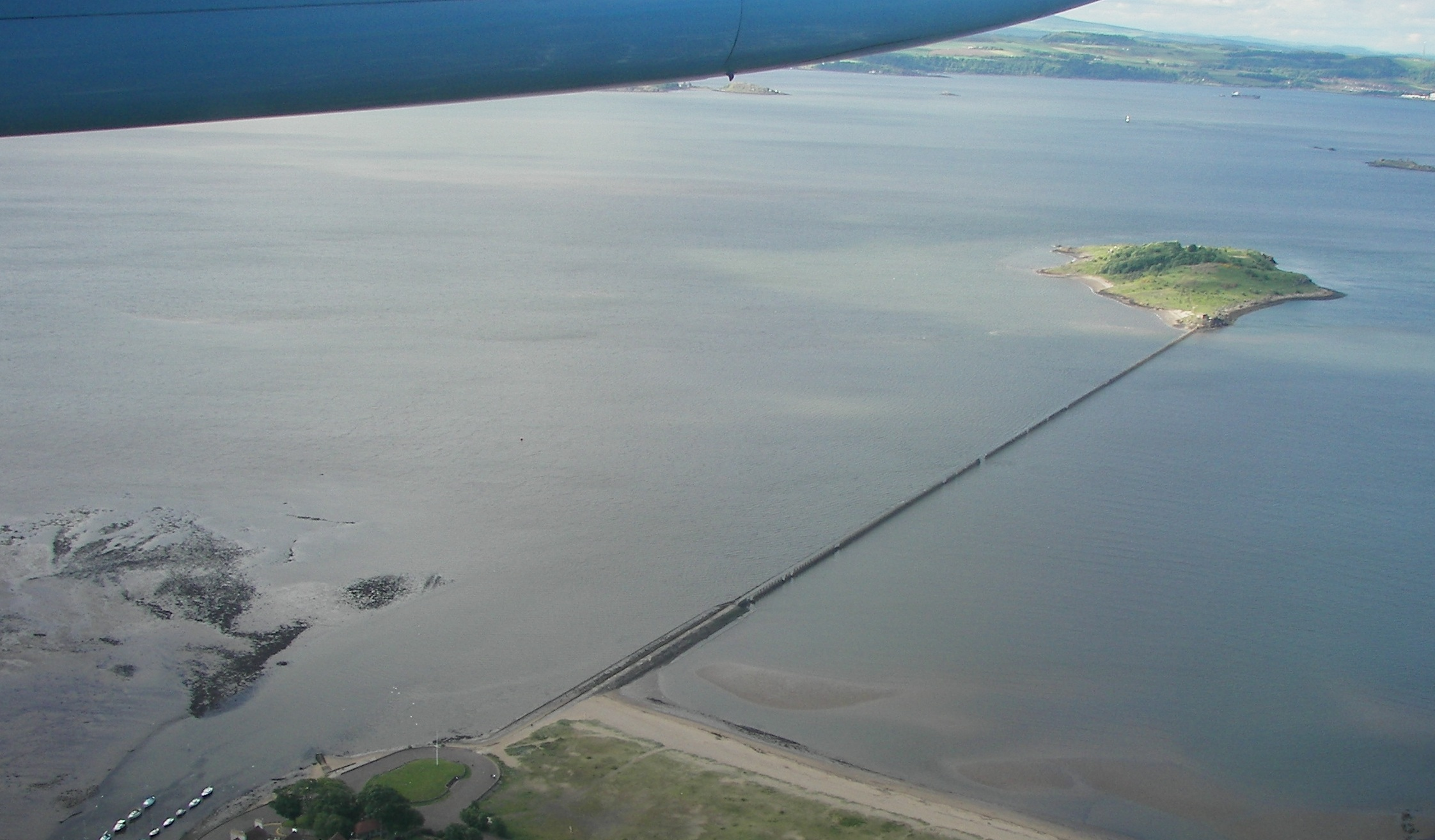 Cramond Island and causeway (submerged in this picture, pylons visible). Photo taken from a plane, minutes before landing at Edinburgh Airport. I cropped out parts of the photo where the landing gear etc was showing, but I felt I had to leave in the top of the photo where a part of the wing is present, because I wanted the horizon and the other side of the firth to remain visible.